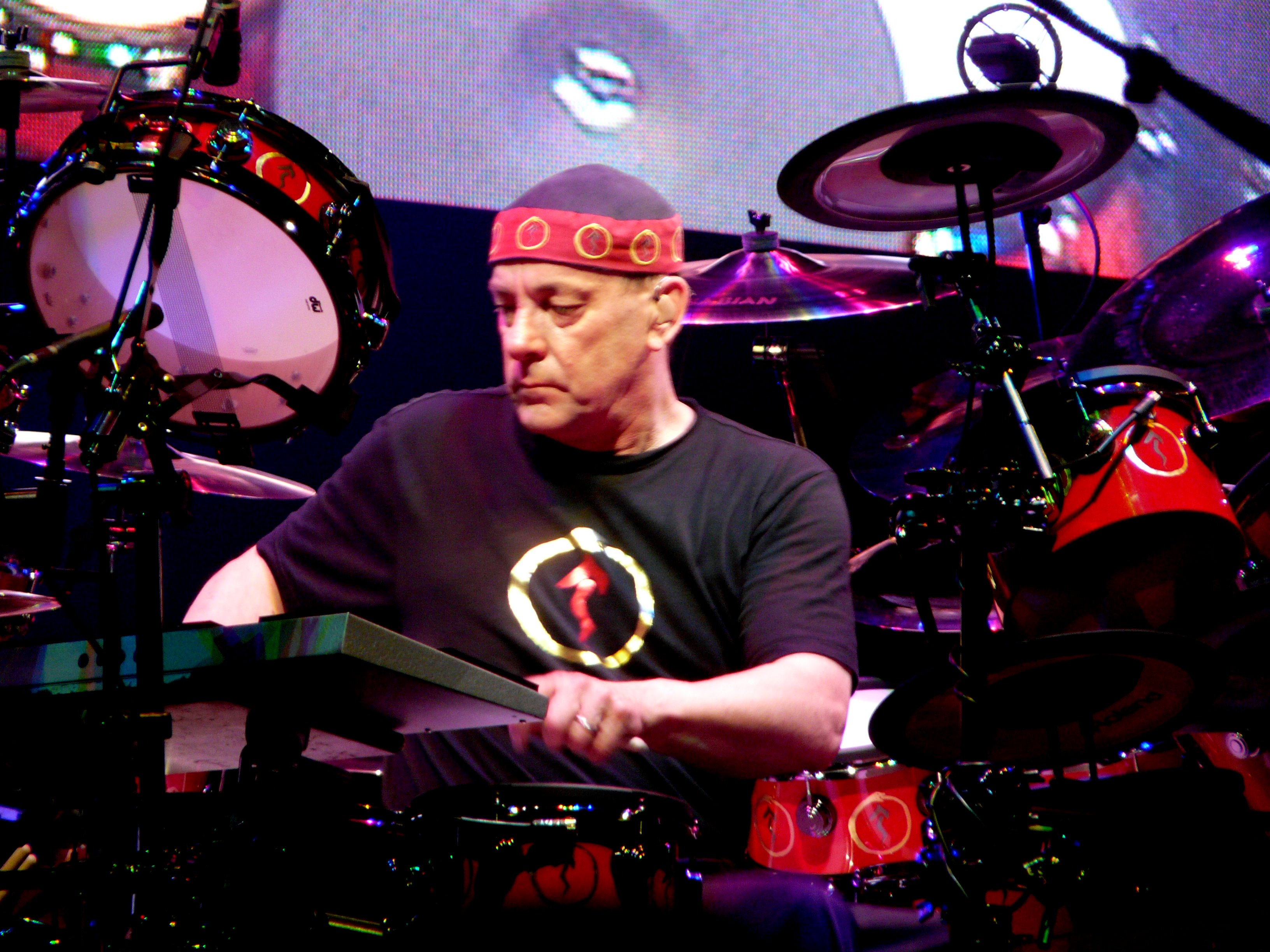 Neil Peart of Rush live in concert at the Xcel Energy Center on May 22, 2008. PHOTO BY MATT BECKER